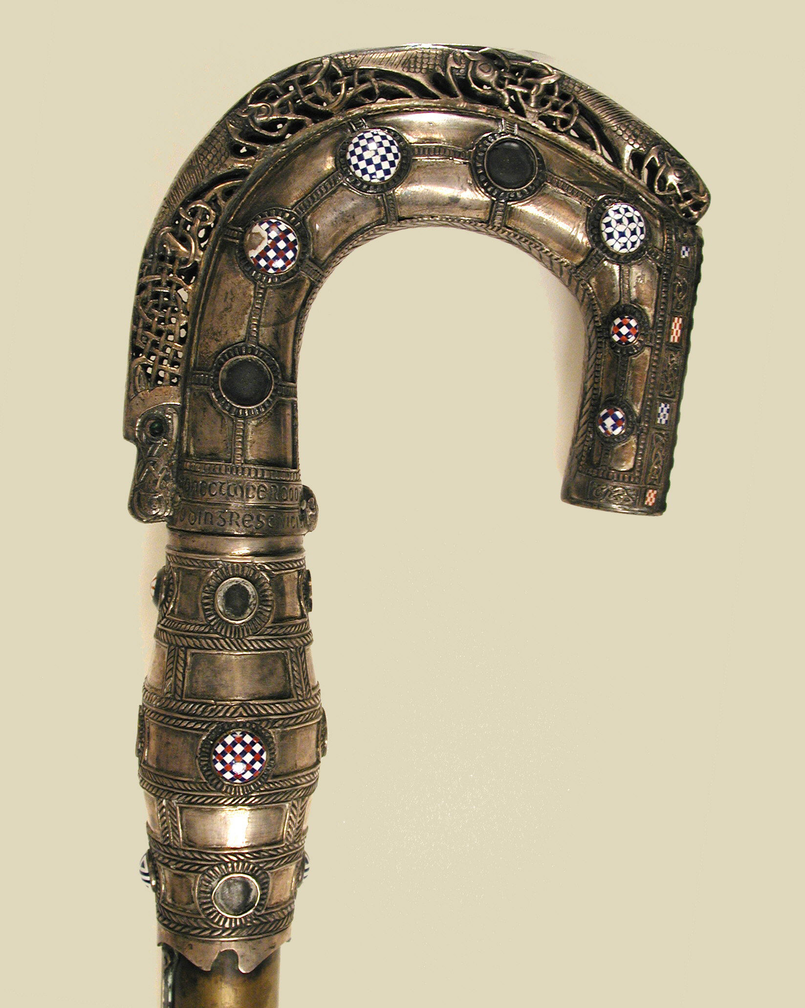 Irish; Crozier; Reproductions-Metalwork